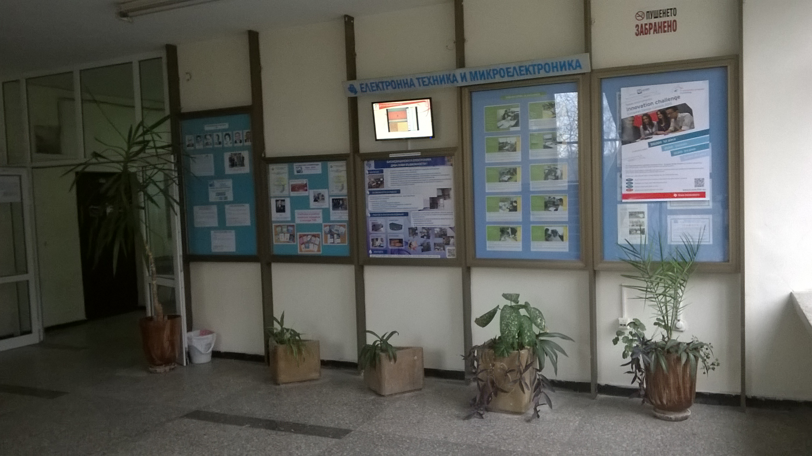 departament of Electronics in Technical University in Varna